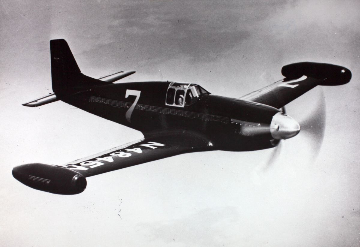 Title: North American P-51C, Beguine Catalog #: 15_000825 Date: 1949 Creation Place: USA, Cleveland, Ohio ADDITIONAL INFORMATION: Probably the most extensively modified P-51 until the 1975 Red Baron. Won 1949 Sohio Trophy Race, crashed in Thompson and Killed Pilot Bill Odom plus a mother and child Collection: Charles M. Daniels Collection Photo Album Name: Cleveland, 46-49 Page #: 32 Tags: North American P-51C, Beguine , Probably the most extensively modified P-51 until the 1975 Red Baron. Won 1949 Sohio Trophy Race, crashed in Thompson and Killed Pilot Bill Odom plus a mother and child PUBLIC COMMONS.SOURCE INSTITUTION: San Diego Air and Space Museum Archive